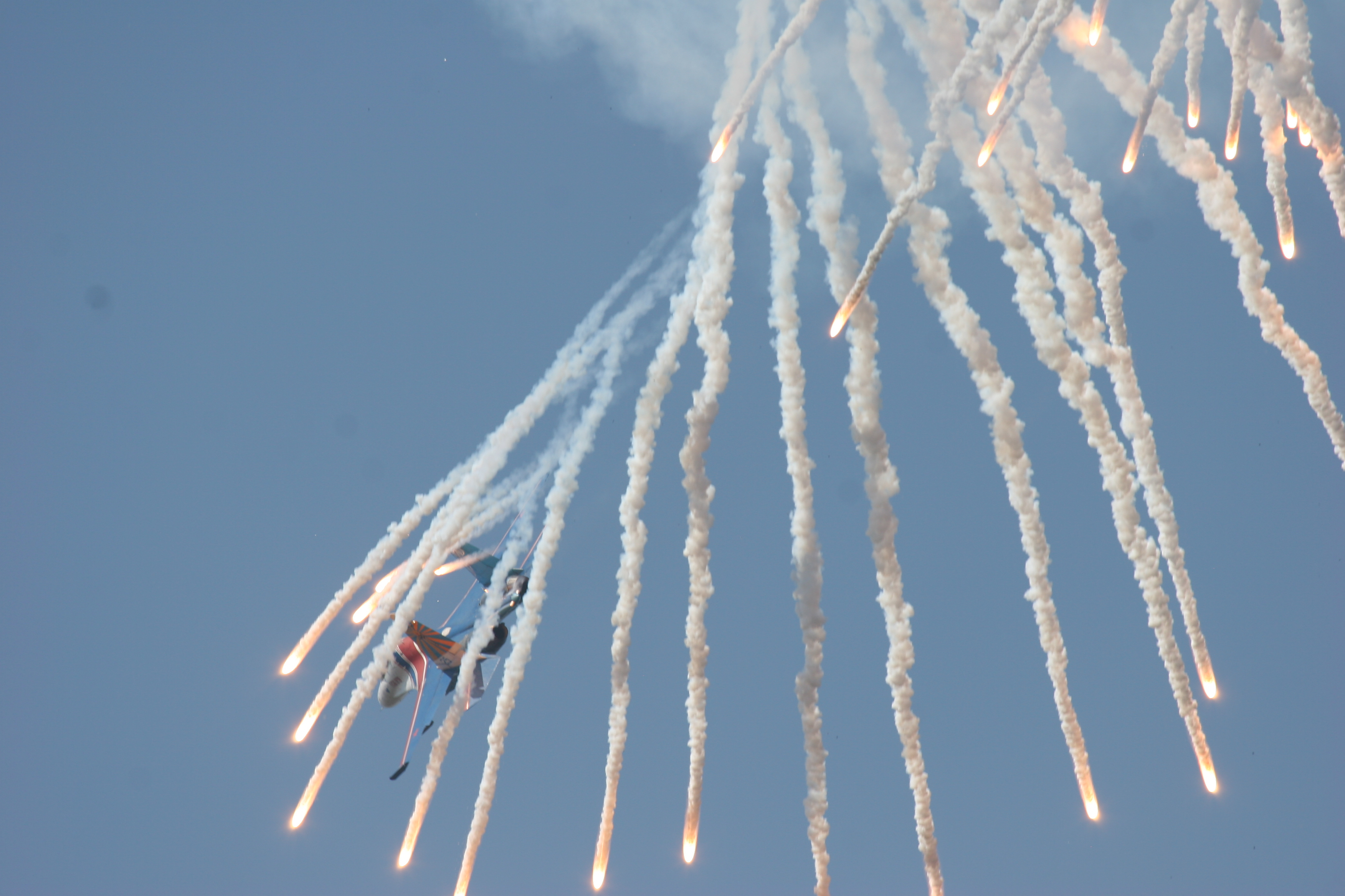 Sukhoi Su-27 Flanker shoots off false heat targets. Russian Knights aerobatic team, Russian airforce day celebrations at Monino, 2007